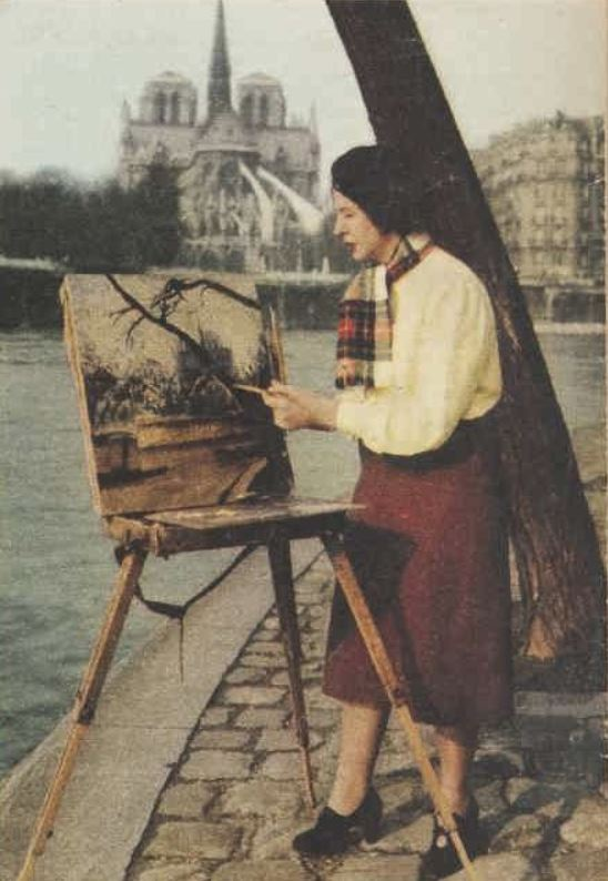 On the banks of the Seine, just below her flat, Moya Dyring works on one of her oil paintings of a Parisian scene.